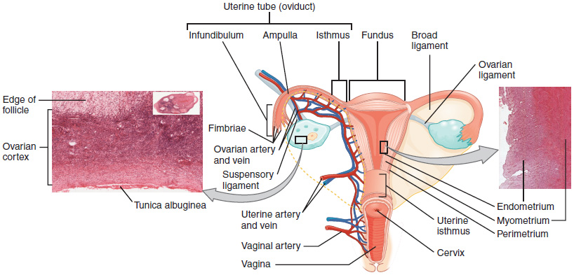 Illustration from Anatomy & Physiology, Connexions Web site. Jun 19, 2013.